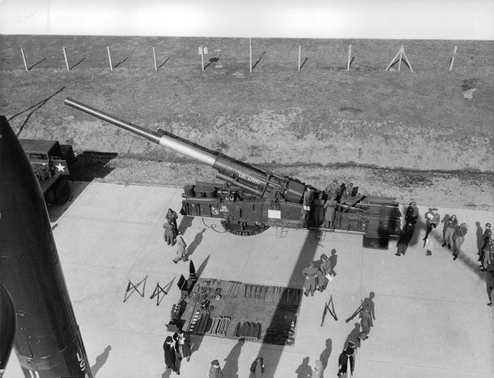 A M65 atomic cannon by the US Army.